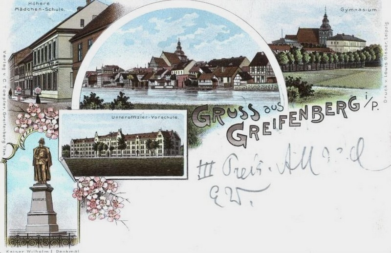 School in Greifenberg (today Gryfice) on card post from 1898 year